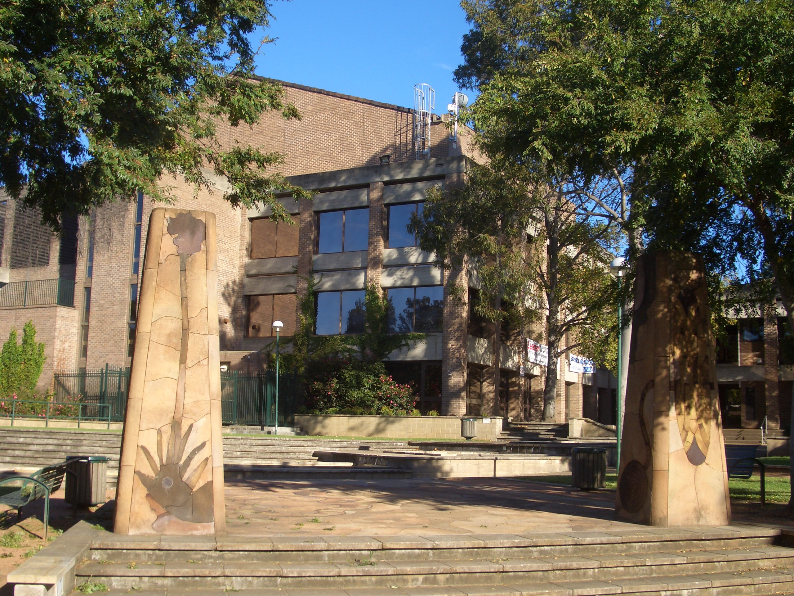 Sutherland_Entertainment_Centre, Eton Street